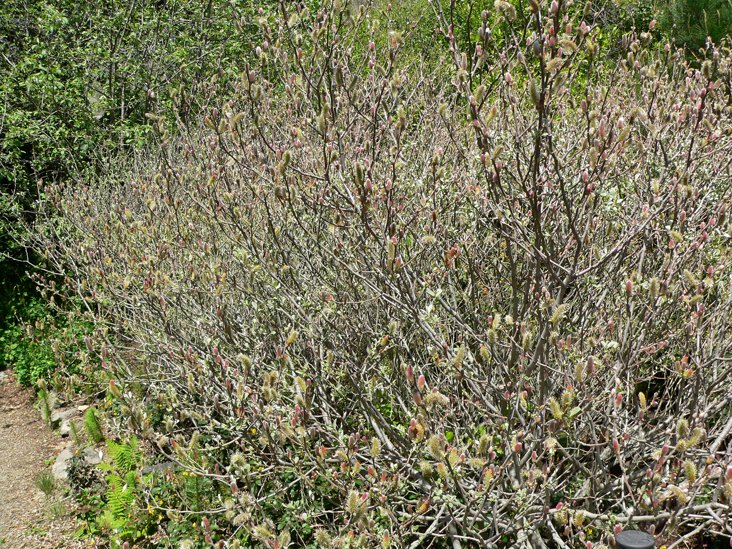 Salix delnortensis at the University of California Botanical Garden, Berkeley, California